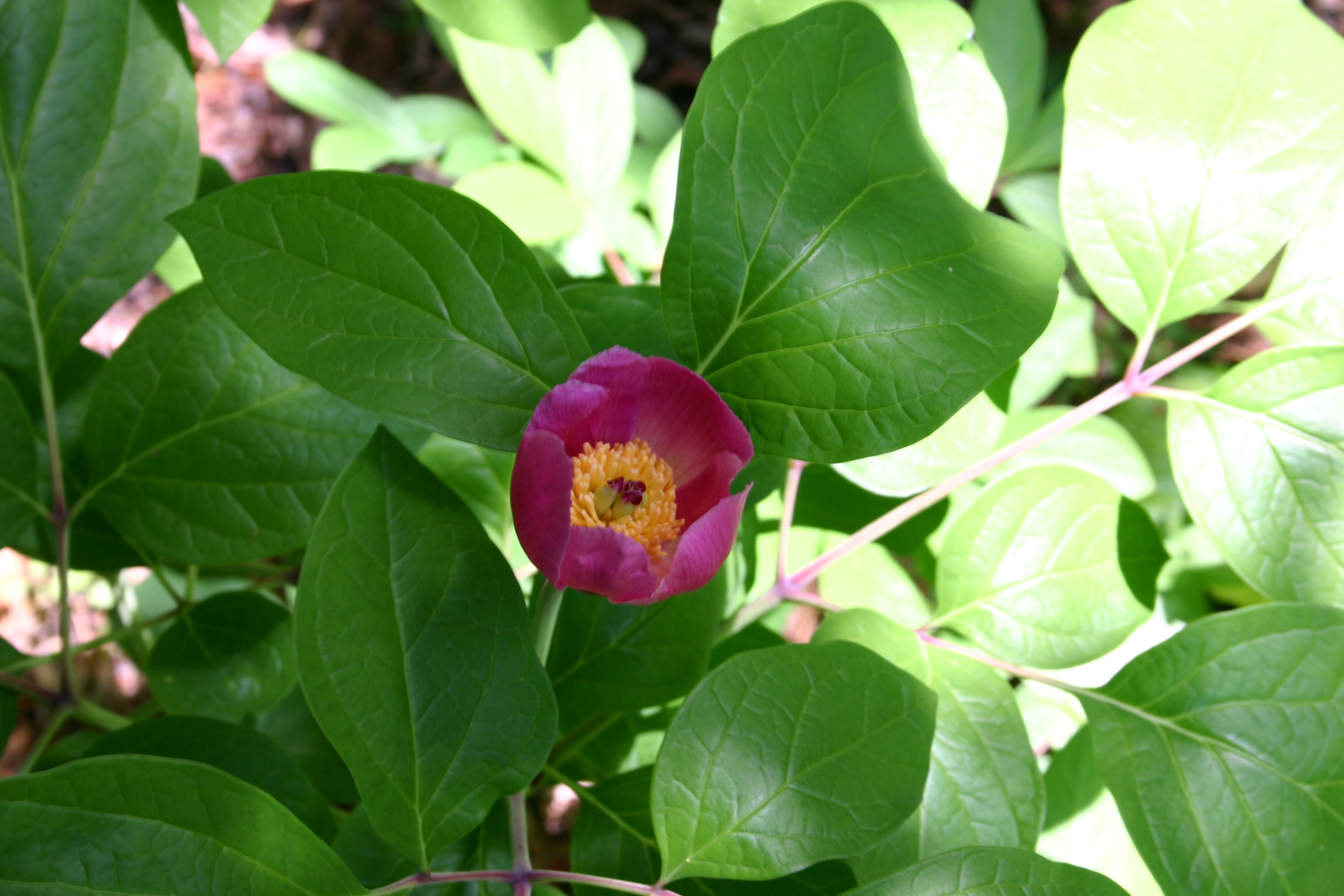 flower of Paeonia obovata